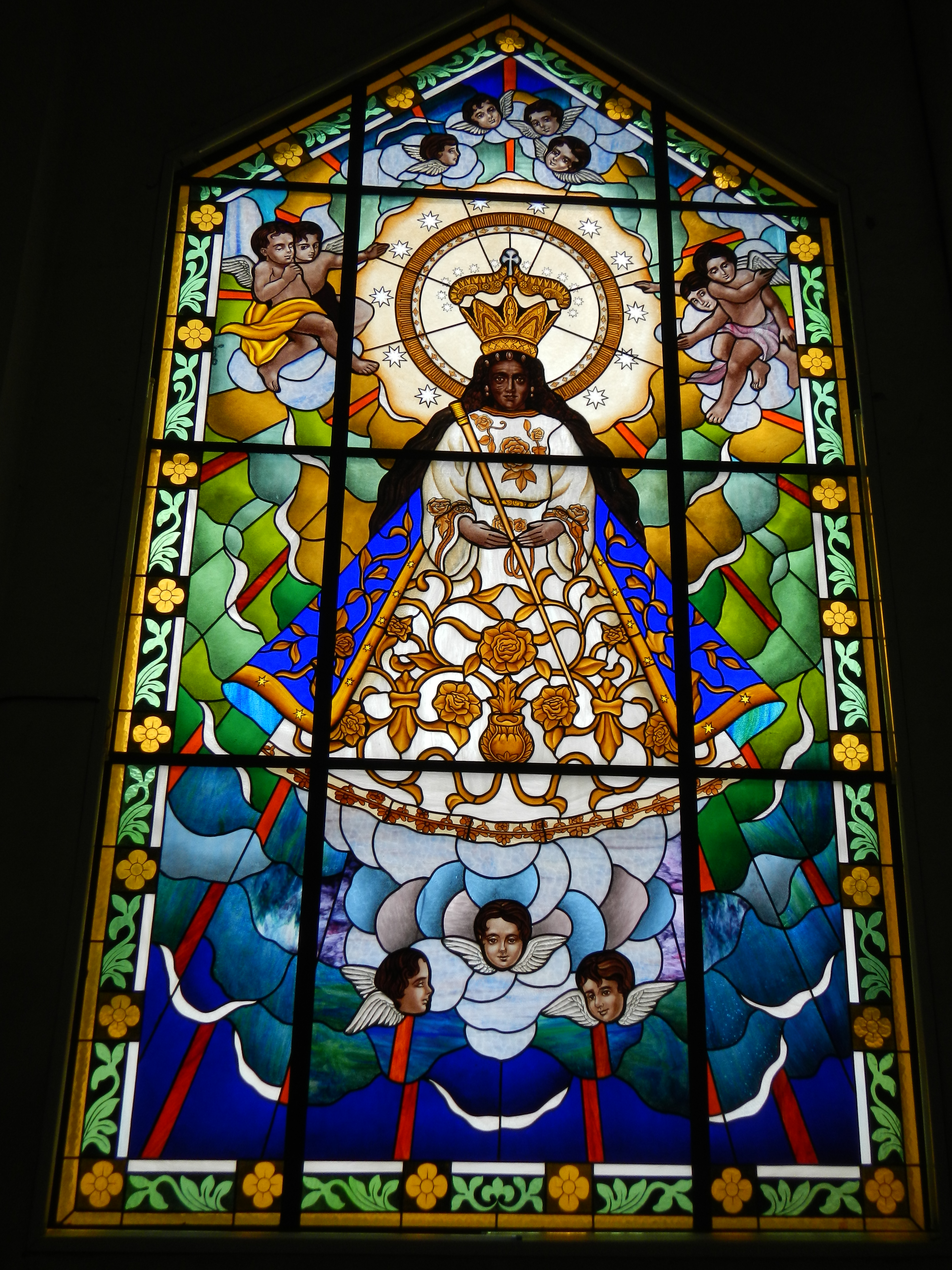 Our Lady of Peace and Good Voyage[1] (Spanish: Nuestra Señora de la Paz y Buen Viaje), Major shrine Cathedral of the Immaculate Conception of Antipoloalso known as the Virgin of Antipolo (Tagalog: Birhen ng Antipolo), is a 17th-century Roman Catholic brown wooden statue of the Blessed Virgin Mary venerated by Roman Catholics in the Philippines. The statue depicting the Immaculate Conception of Mary, is enshrined at the Antipolo Cathedral in the city of Antipolo in Rizal province.[2] Coordinates: 14°35'15"N 121°10'35"E [3] antipolo-cathedral-national-shrine-of-our-lady-of-peace-and-good-voyage/ It belongs to the Roman Catholic Diocese of Antipolo[4] - VICARIATE OF OUR LADY OF PEACE AND GOOD VOYAGE - [5] Antipolo (officially: City of Antipolo, Filipino: Lungsod ng Antipolo) is a city in the Philippines located in the province of Rizal; about 25 kilometres (16 mi) east of Manila. It is the largest city in the CALABARZON Region. It is also the seventh most populous city in the country with a population of 633,971 in 2007. Antipolo local elections, 2013[6] --- This place is situated in Rizal, Region 4, Philippines, its geographical coordinates are 14° 35' 11" North, 121° 10' 31" East and its original name (with diacritics) is Antipolo. Fire hits Antipolo City library, Comelec field office May 24, 2013 Ynares proclaimed next Mayor of Antipolo City Governor Casimiro “Jun” Ynares III was proclaimed the next Mayor of Antipolo City over re-electionist Nilo Leyble.